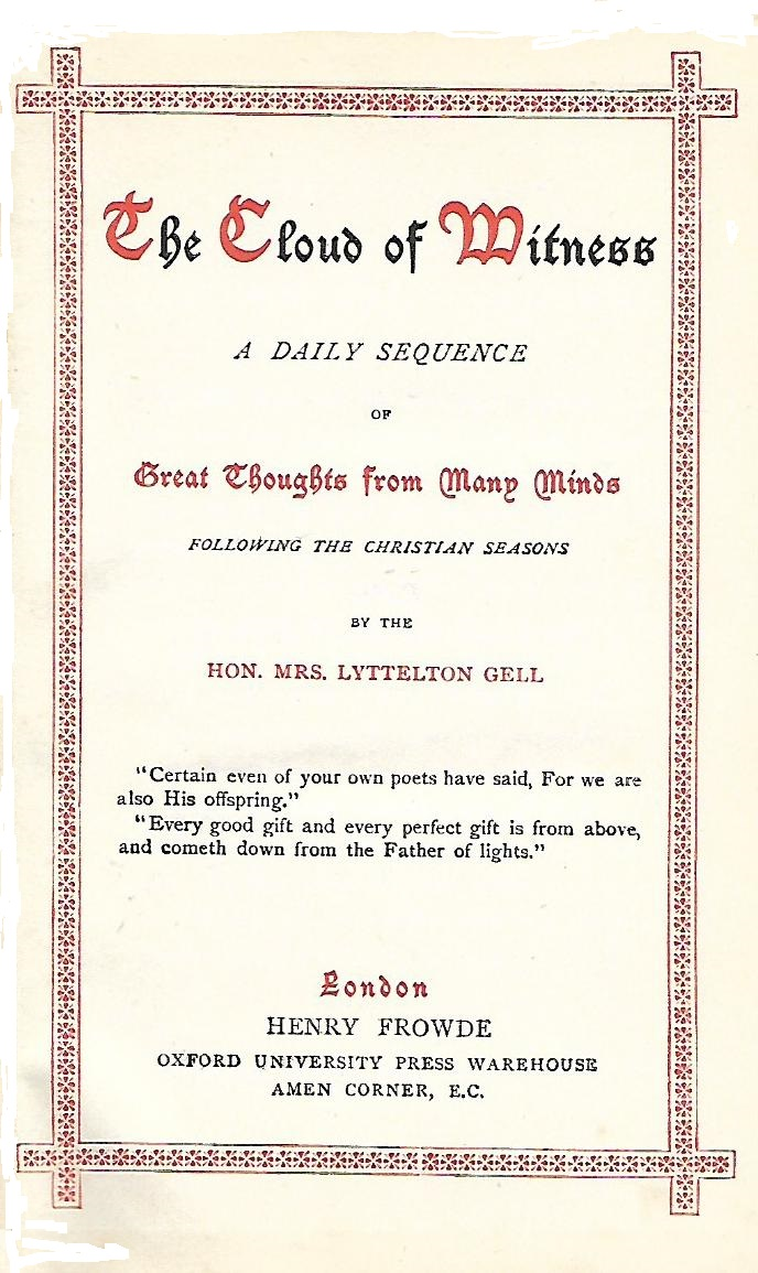 This is the title page of the book 'The Cloud of Witness' published in 1891. It is for inclusion in the Author's profile - Edith Mary Gell